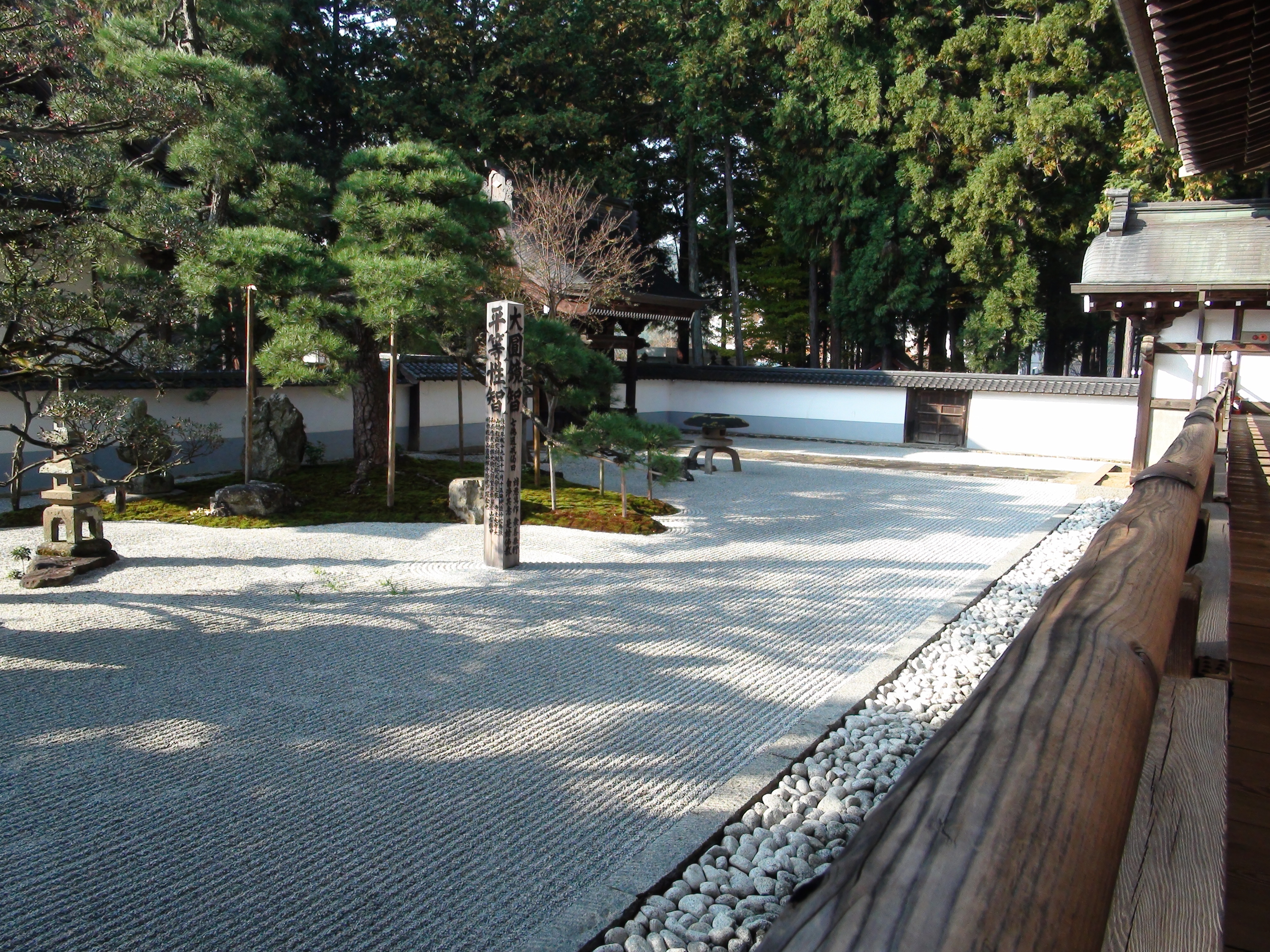 Erinji rock garden